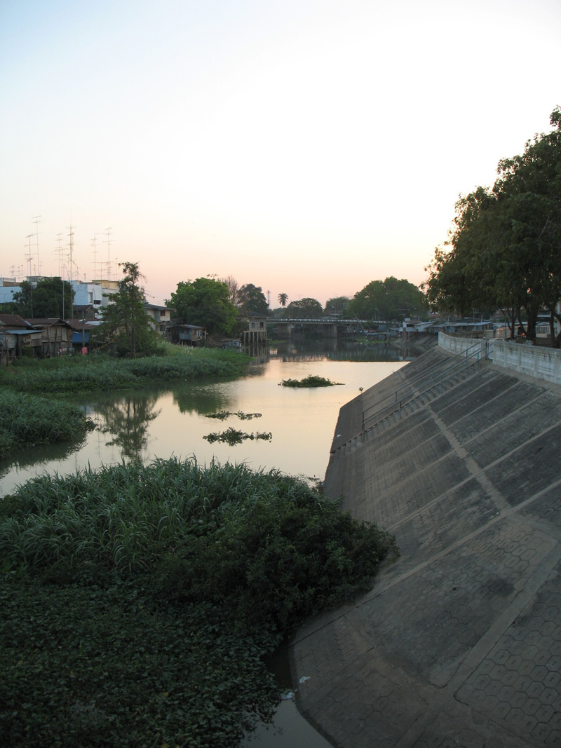 The Lopburi River in the evening.